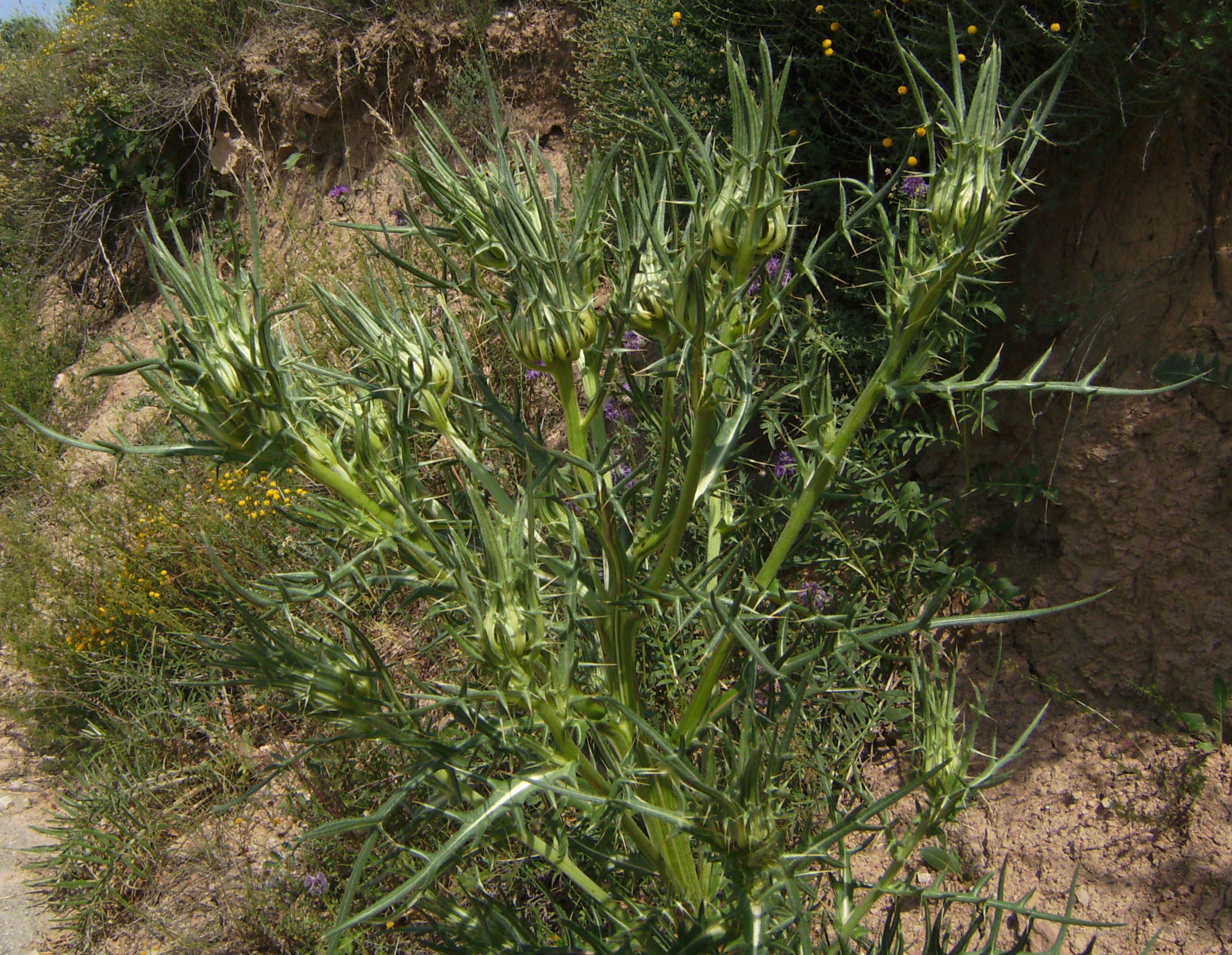 Cirsium eriophorum plant in the wild in Castelltallat, Catalonia